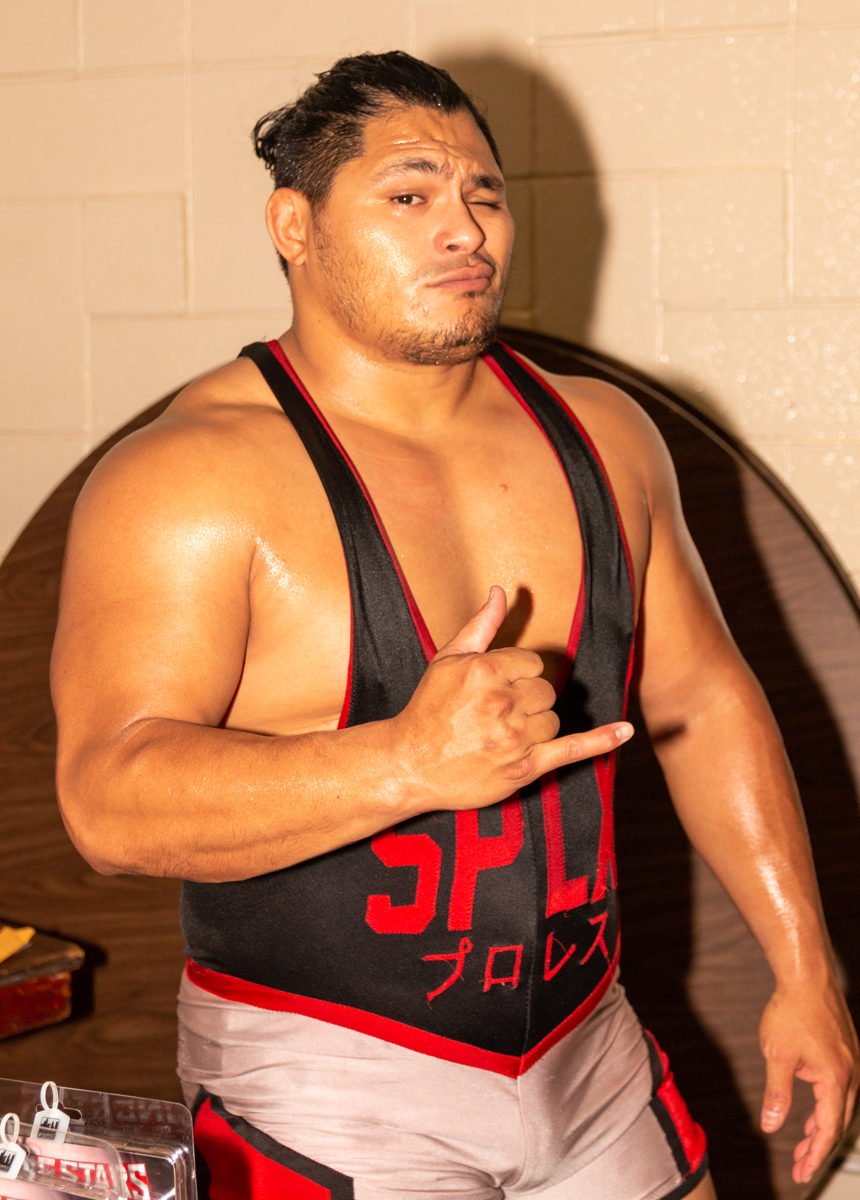 Pro wrestler Jeff Cobb posing during intermission at an Alpha-1 Wrestling show at Hamilton, ON